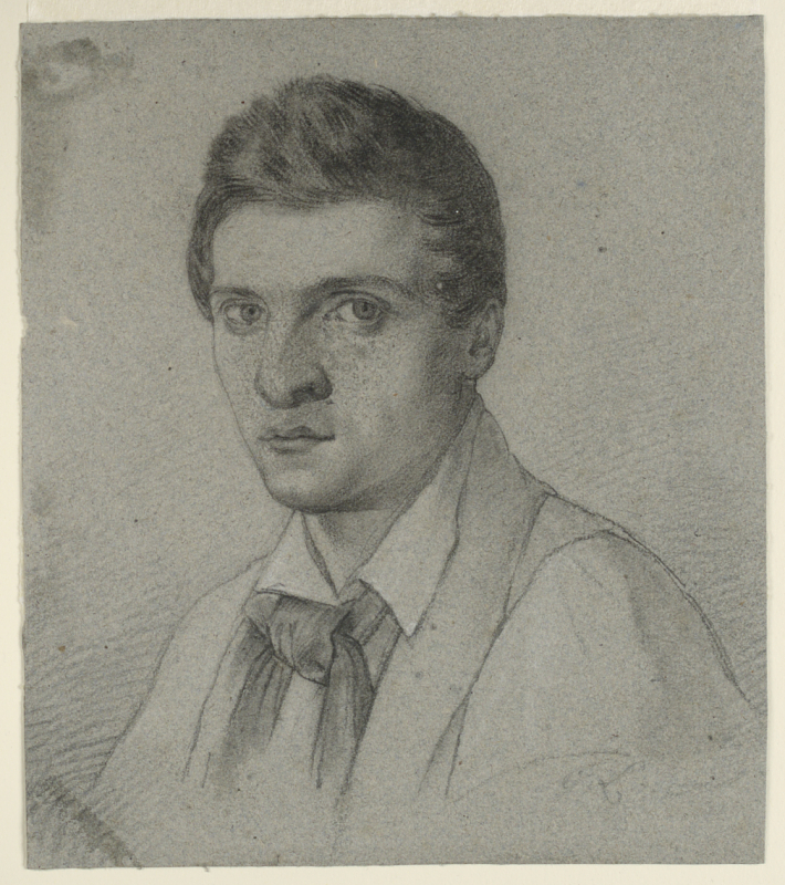 Giuseppe Sabatelli self-portrait